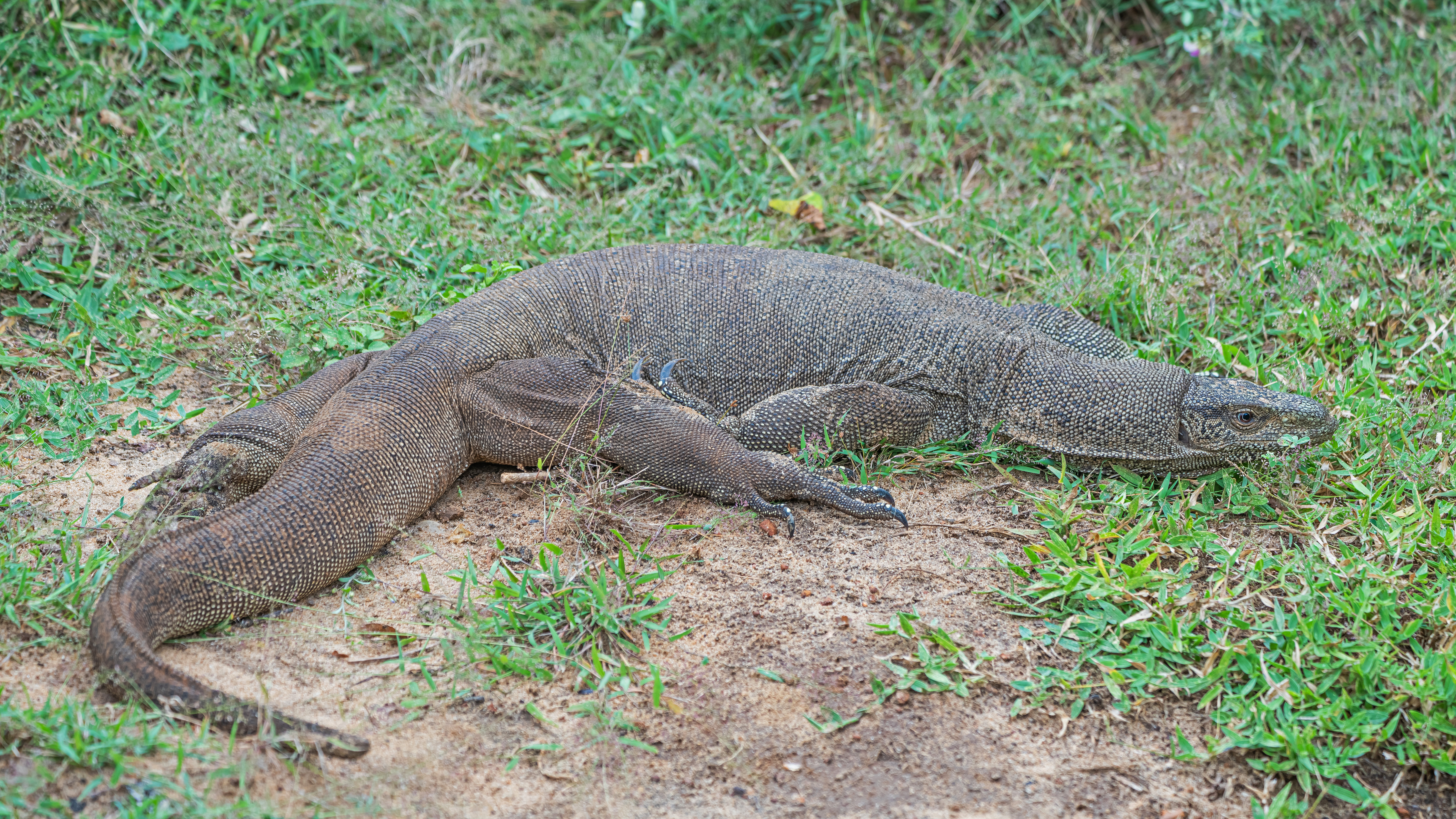 Bengal Monitor (Varanus bengalensis) in Bundala National Park, Sri Lanka